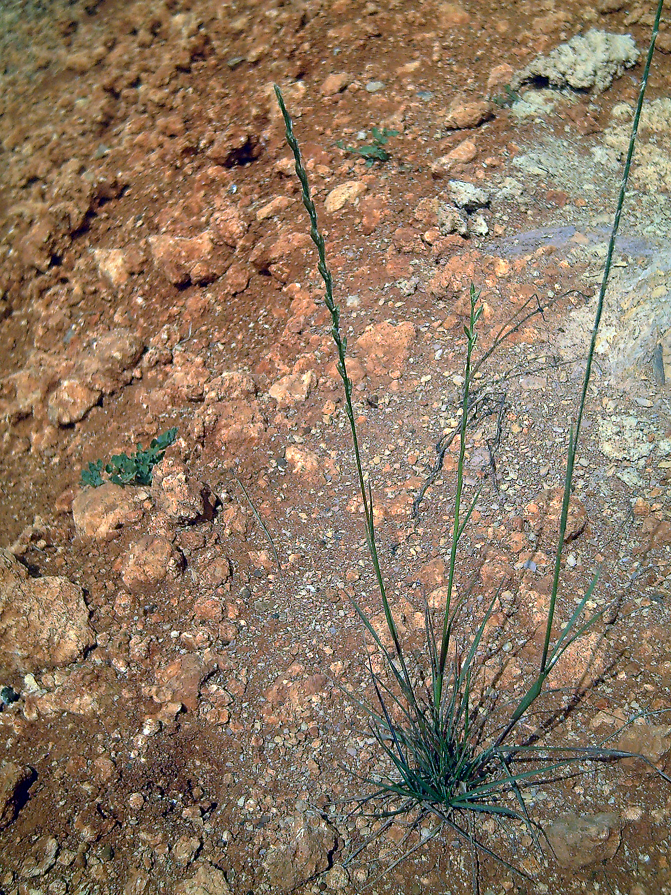 Lolium rigidum habitus, Campo de Calatrava, Spain